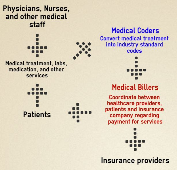 Infographic describing role of medical billers